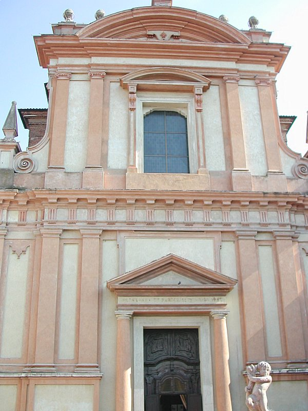 The Church of San Barnabà in Mantua. Source: photo uploaded by User:RicciSpeziari. Photographer: Riccardo Speziari